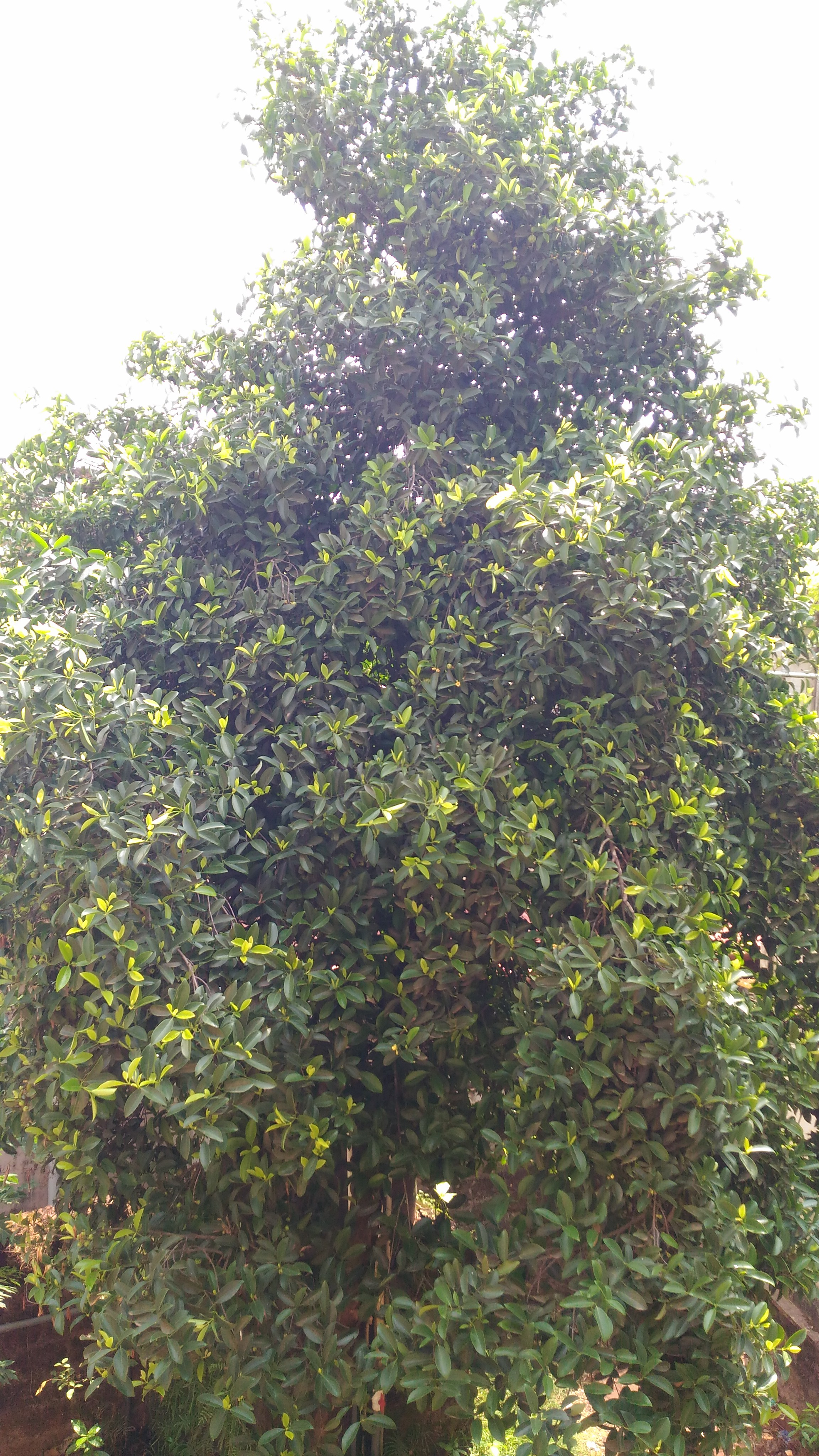 Garcinia gummi-gutta plant in the compound of GHSS Hosdurg